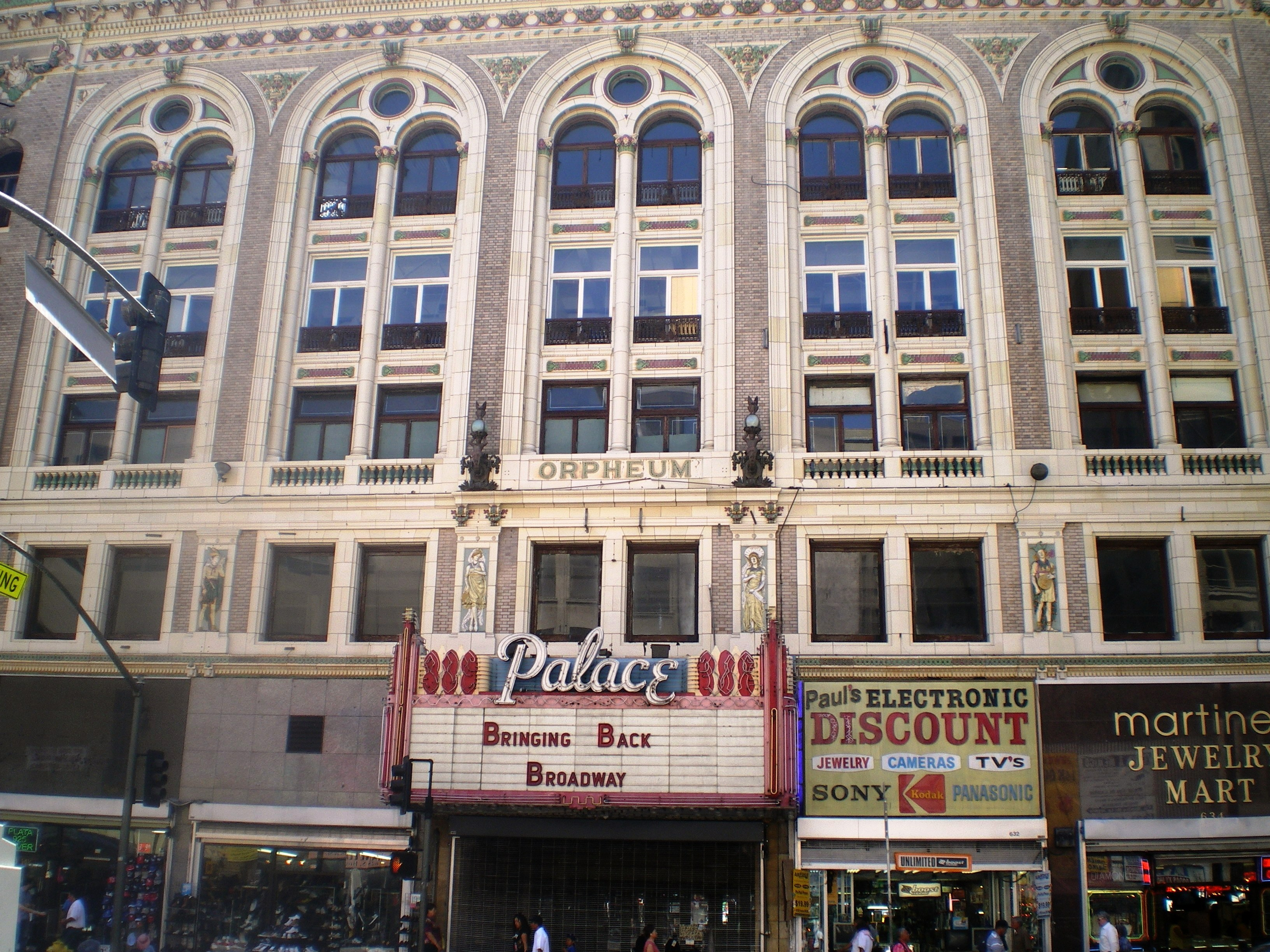 Palace Theater (fka Orpheum Theater), 620 S. Broadway, Los Angeles, California